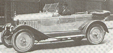 1924 MG 14/28 sports